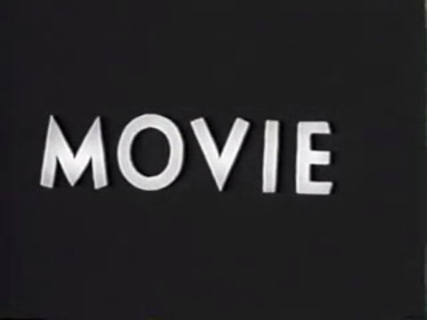 A recurring title card from A Movie by Bruce Conner